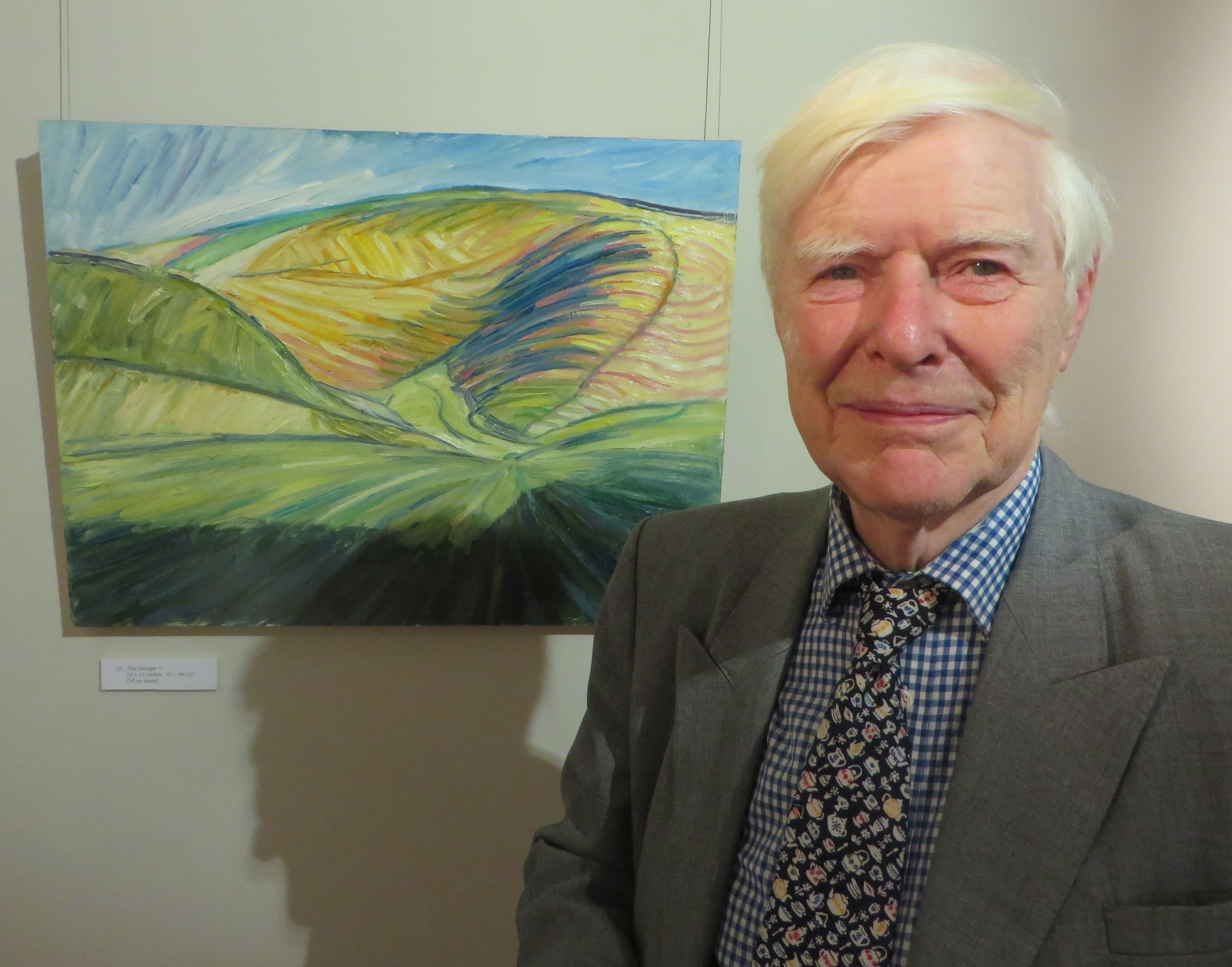 Nick Schlee, an English landscape painter, at Gallery 8 in St James's, central London, England.